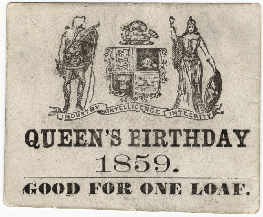 As part of the celebrations surrounding Queen Victoria's birthday, the City of Toronto marked the day by distributing free loaves of bread to the crowds, by way of tickets such as this one. "Good for one loaf". Toronto, Ontario, Canada.